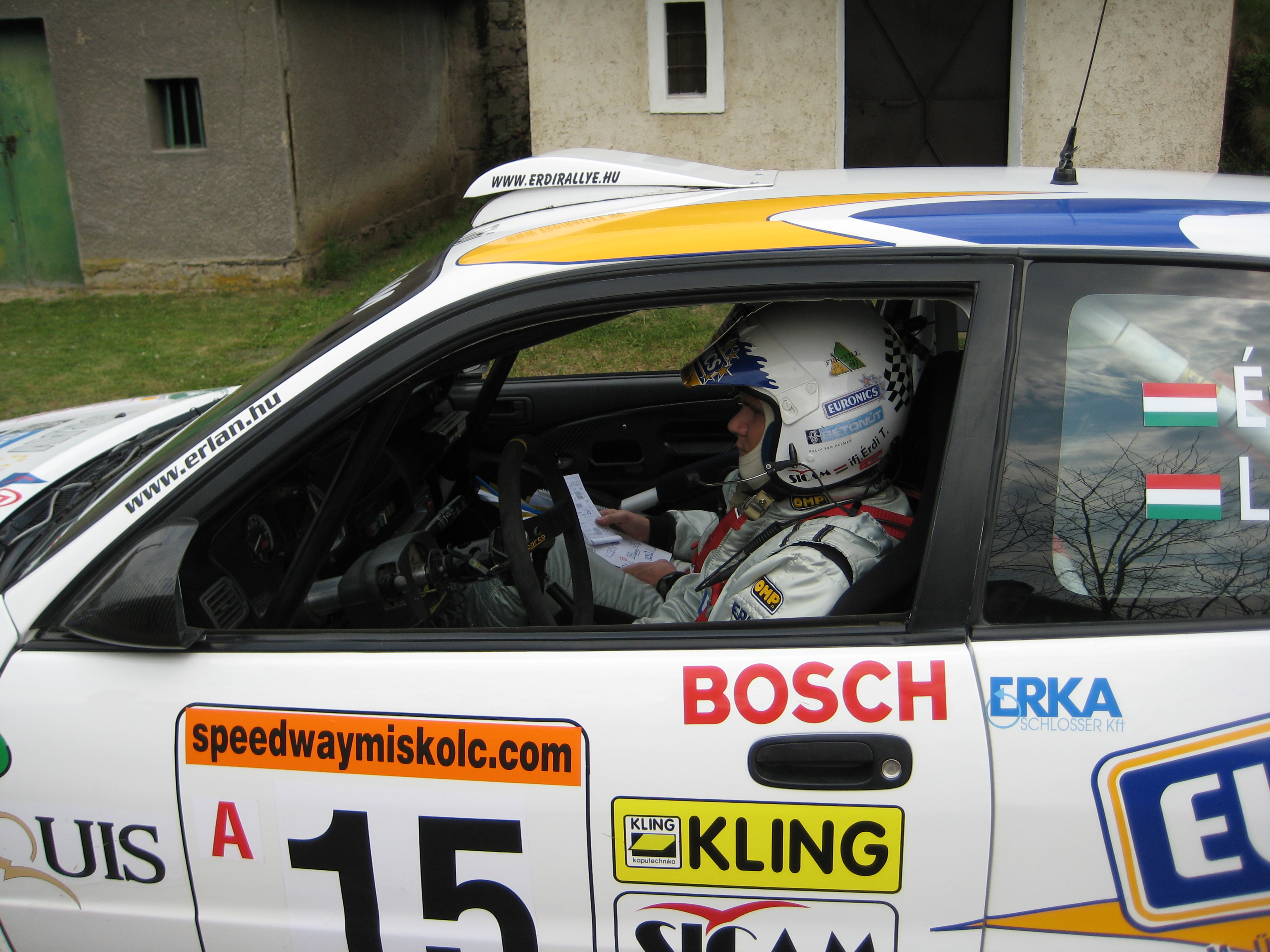 Miskolc rally 2007